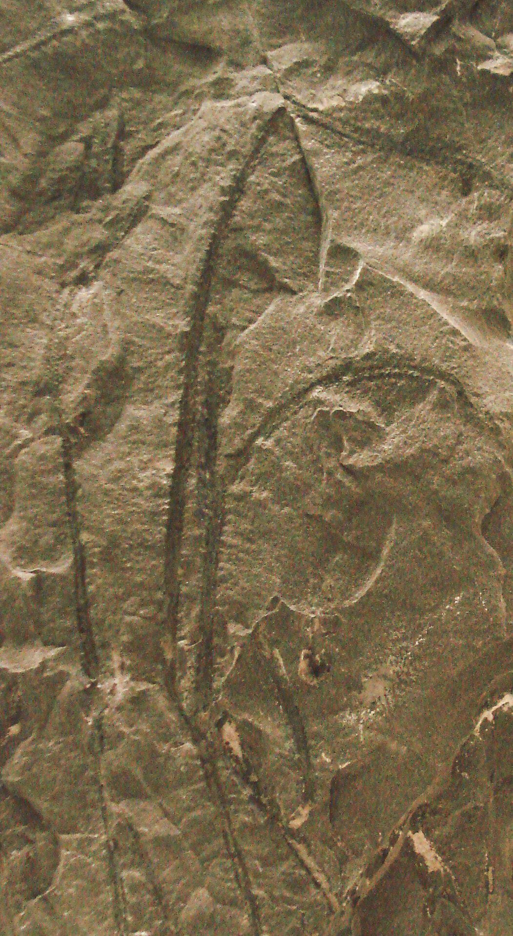 Fossil of Psilophyton dawsonii, an extinct plant, taken at the Museo di Storia Naturale di Milano. Original photo processed to try to increase contrast between fossil and matrix.